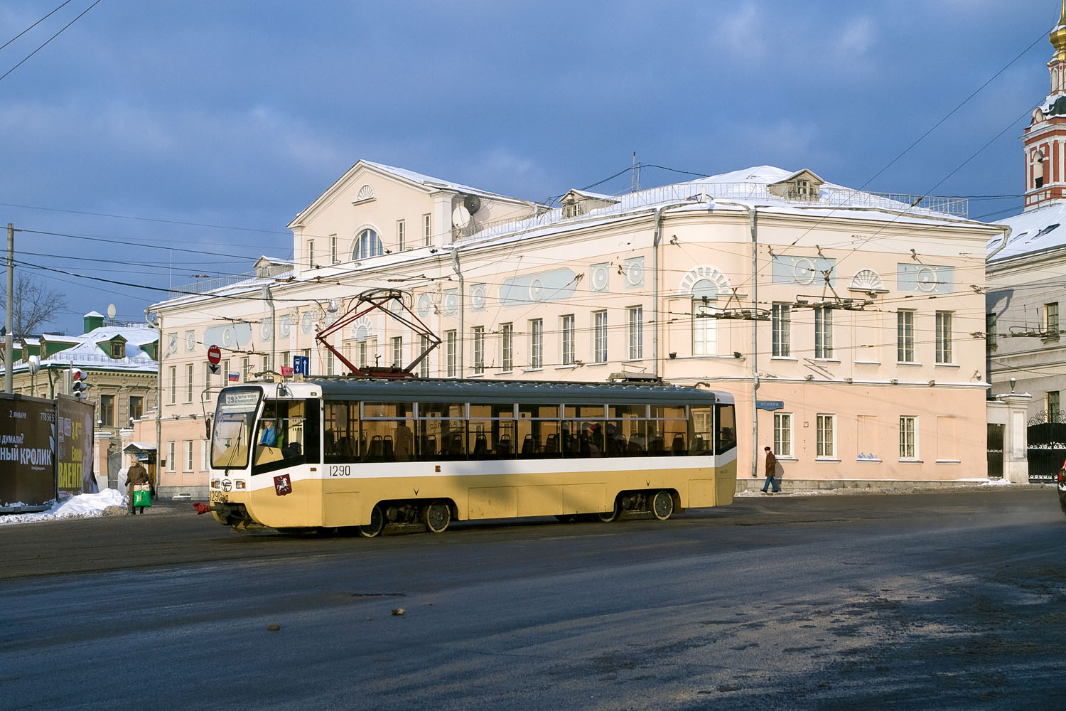 Yauza Gates square, Moscow